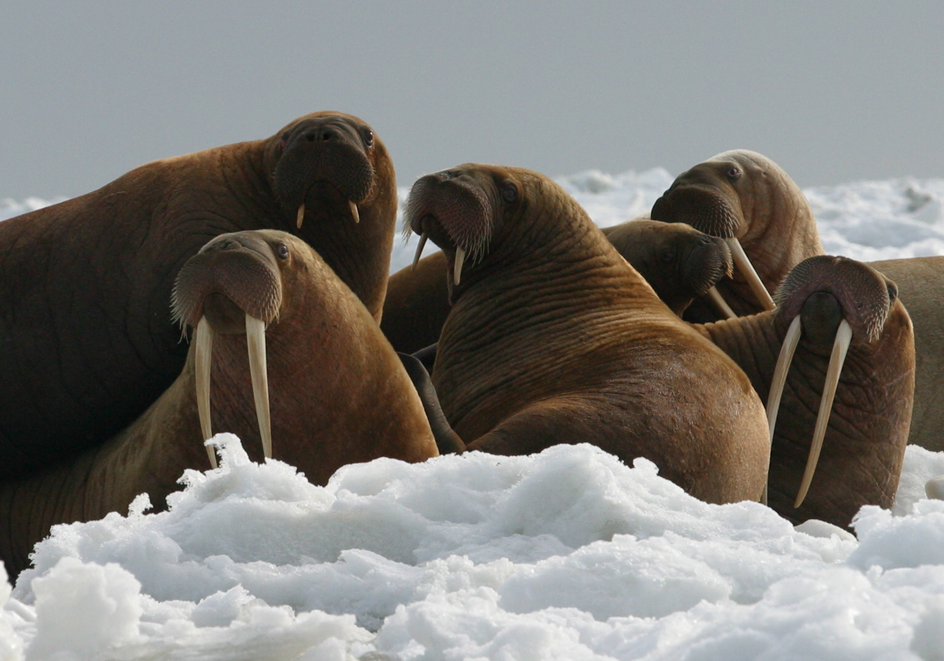 Walrus cows and yearlings resting on ice. The Walrus lives near relatively shallow water where it spends much of its time looking for benthic bivalve mollusks, its preferred diet. The Walrus is a social animal and spends much of its time on sea ice. As sea ice thins and retreats farther north, walrus, which rely on sea ice to rest on between foraging bouts, and polar bears, which need sea ice to hunt seals, will either be displaced from essential feeding areas or forced to expend additional energy swimming to land-based haul-outs.